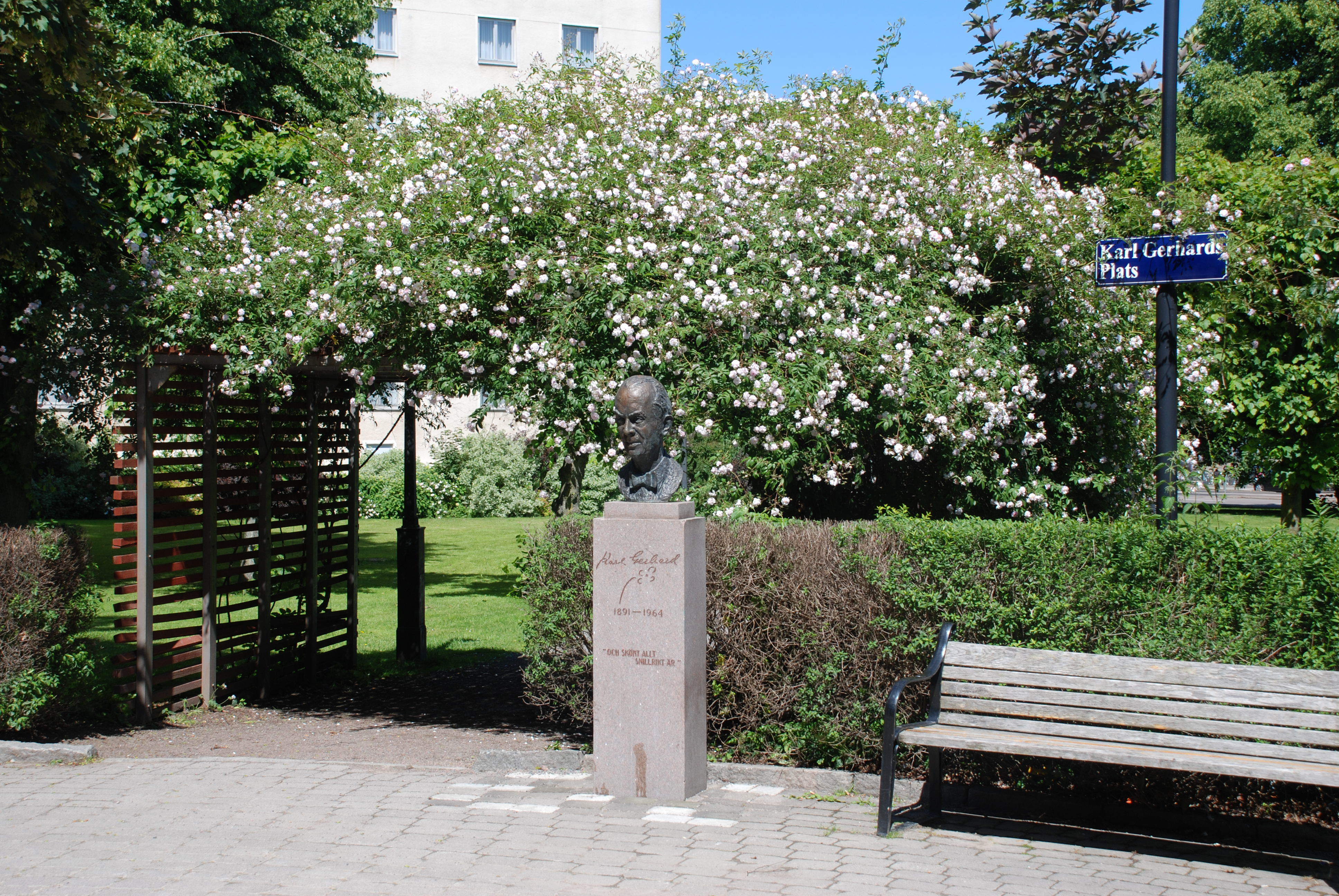 Karl Gerhards square in Lorensbergsparken in Göteborg.